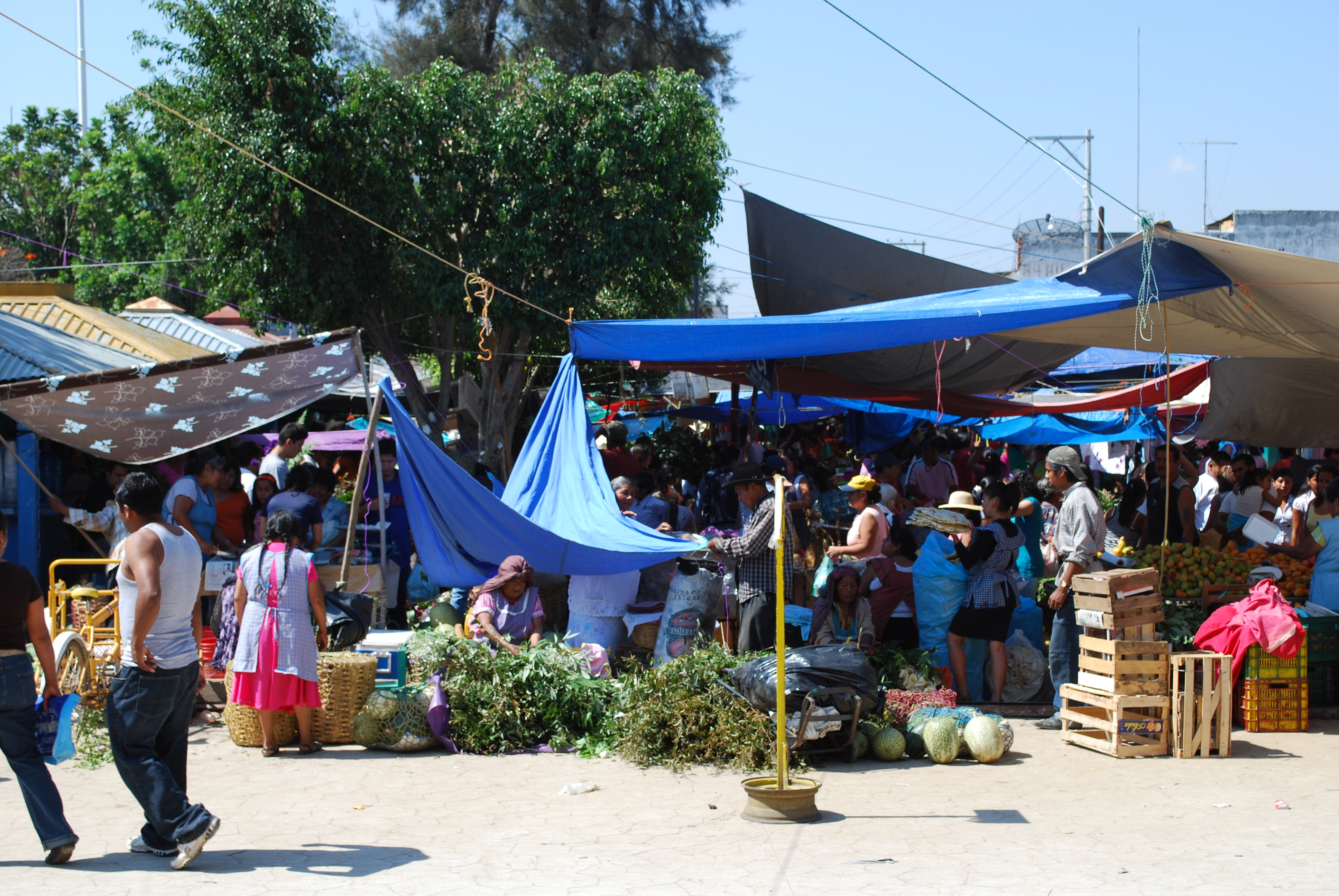 View of the Thursday weekly market in Zaachila, Oaxaca, Mexico